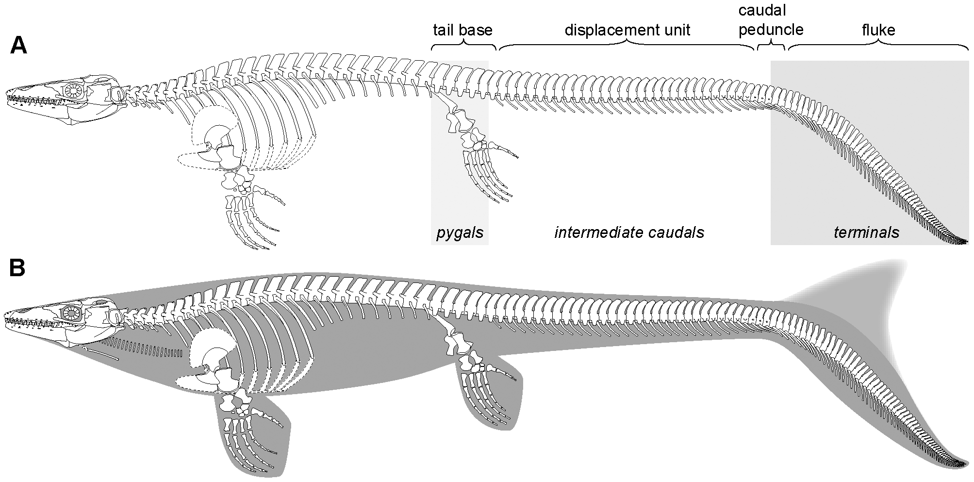 Skeletal reconstruction and inferred body outline of the plioplatecarpine mosasaur Platecarpus. (A) New reconstruction based on LACM 128319. Note the regionalized caudal vertebral column resulting in four discrete structural units: proximal tail stock or base, mid-sectional displacement unit, narrow caudal peduncle, and distal fluke or propulsive surface. Also note the change in inclination of the neural and haemal spines along the caudal segment and the distinct tailbend formed by wedge-shaped vertebrae. The caudal terminology follows that of [28]. (B) Inferred body form of Platecarpus. The precise shape and depth of the dorsal lobe of the caudal fin is unknown.